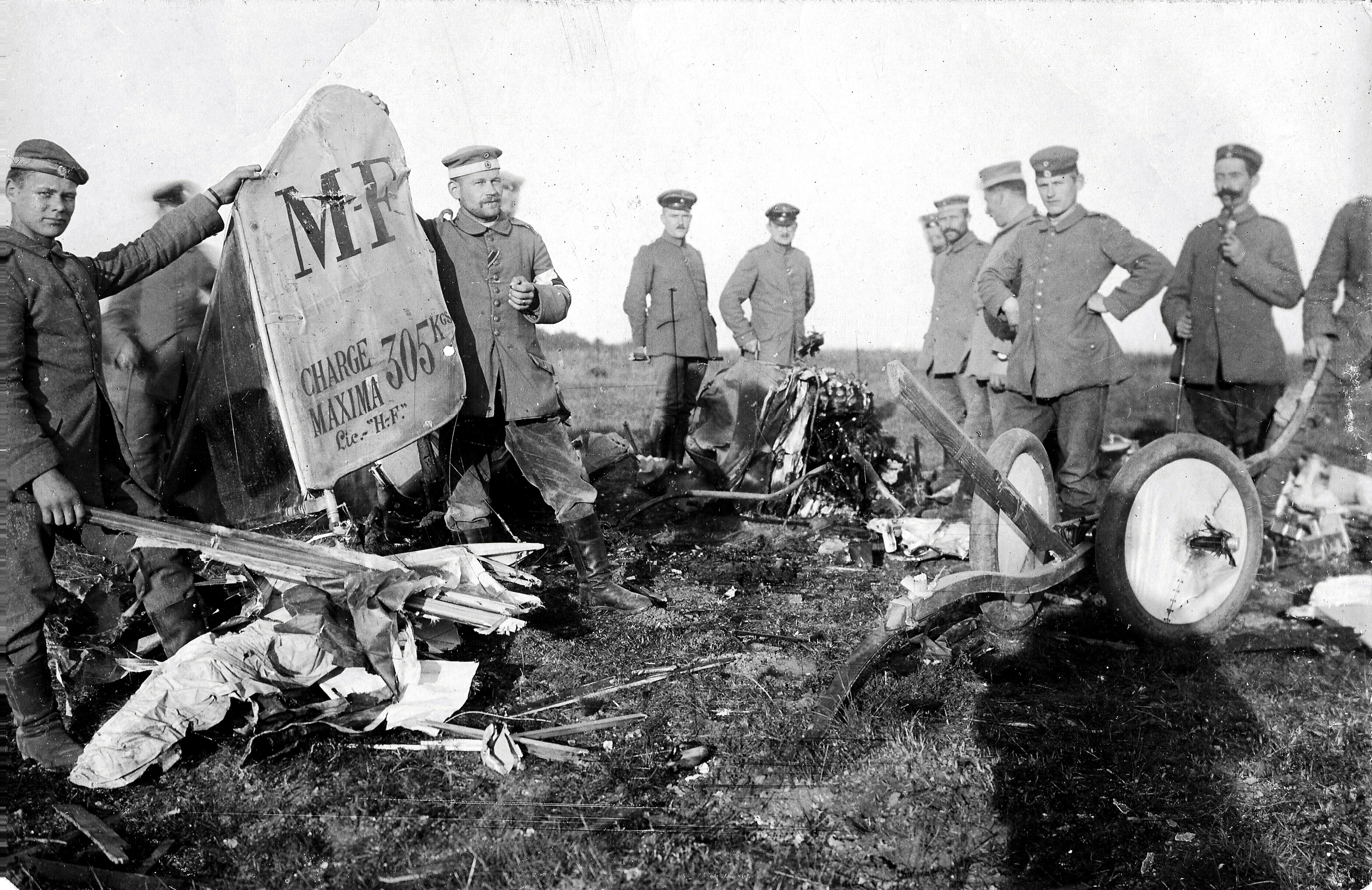 The wreck of a French Farman aircraft. It is believed to be the first victory of Robert Ritter von Greim, one of the most successful pilots on WWI.